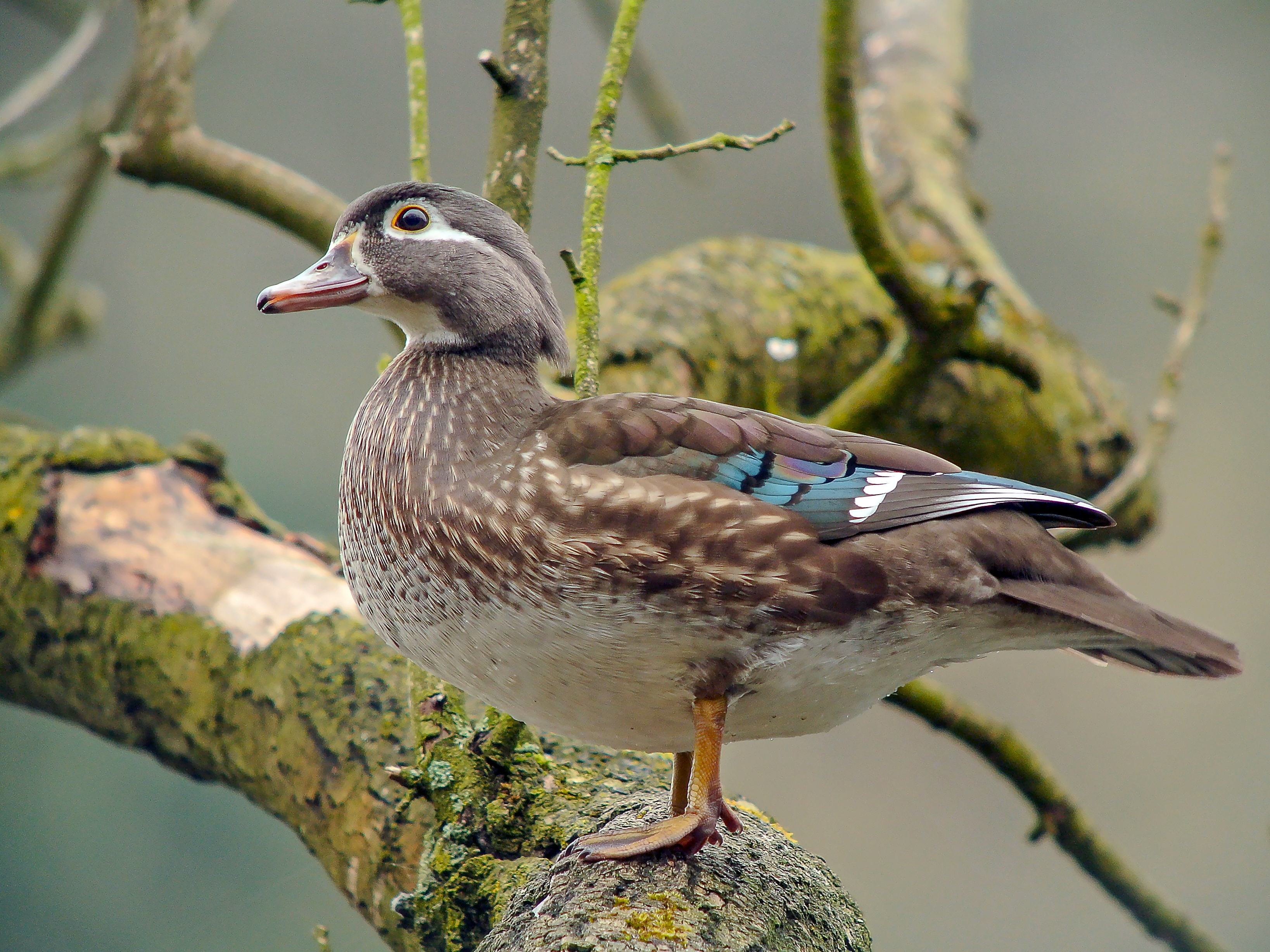 Female Wood Duck (Aix sponsa) at Parc du Rouge-Cloître, Brussels. Photograph taken by digiscoping with Swarovski ATM 80 HD 30 X, Nikon 1V1 + 10-30 mm lens (Adapter DCB)